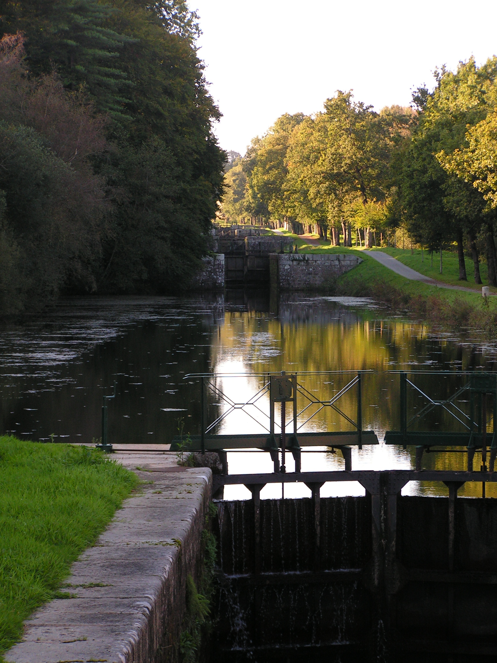 Canal lock at Boju, a town in the Gueltas region of Brittany in France.